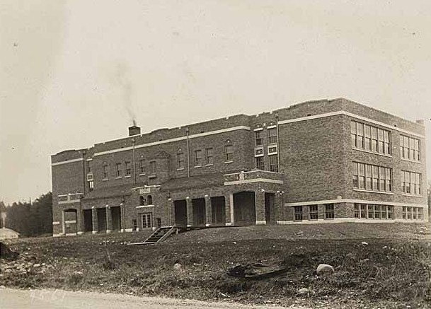 Tahoma High School, 1926. The image is the property of the Maple Valley Historical Society.